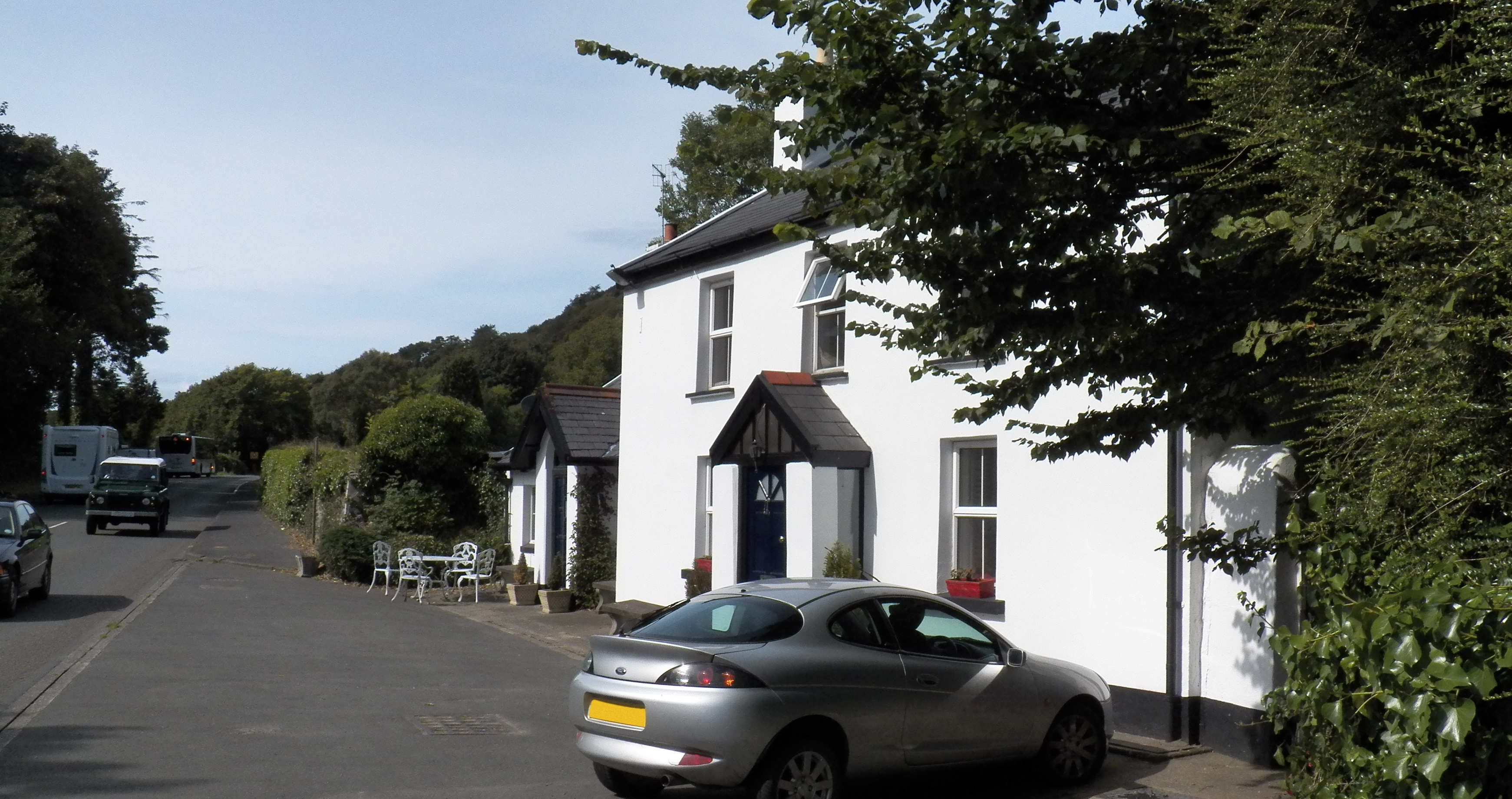 Former Highlander Public House, Greeba, Isle of Man. The restaurant on this site closed in April 2014, and the building is now a private residence as of August 2014. Photograph taken from the public highway.